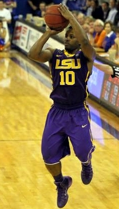 LSU Basketball in Gville